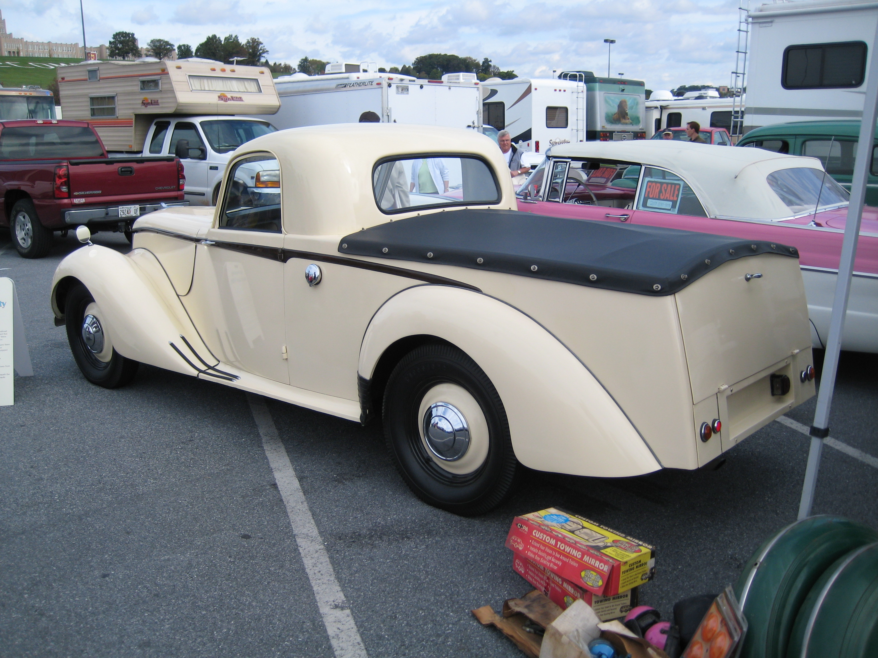 Armstrong Siddeley 1952 Coupe Utility, just like one I spotted in Victoria 35 years ago. What if it could be the same exact car? This one is in Hershey, Pennsylvania, half a world away. The seller's sign said it came from New South Wales, but it could have been sold several times in three decades.The identical but brand-new vehicle I saw sixty years ago was light grey with about 5 inches ground clearance and that delicate English look about every bit of it.